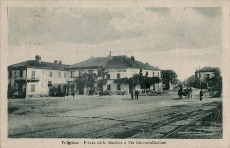 Volpiano, piazza della stazione